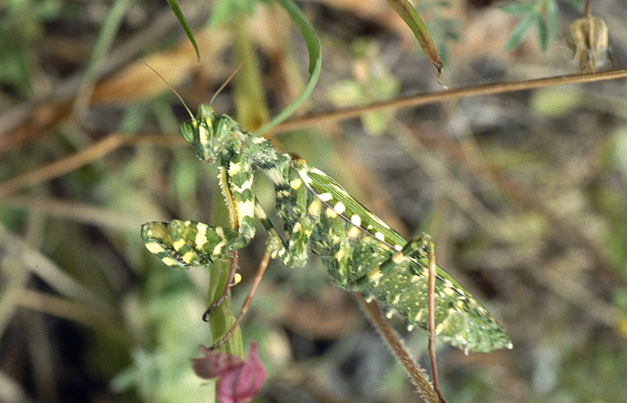 Blepharopsis mendica, Zypern